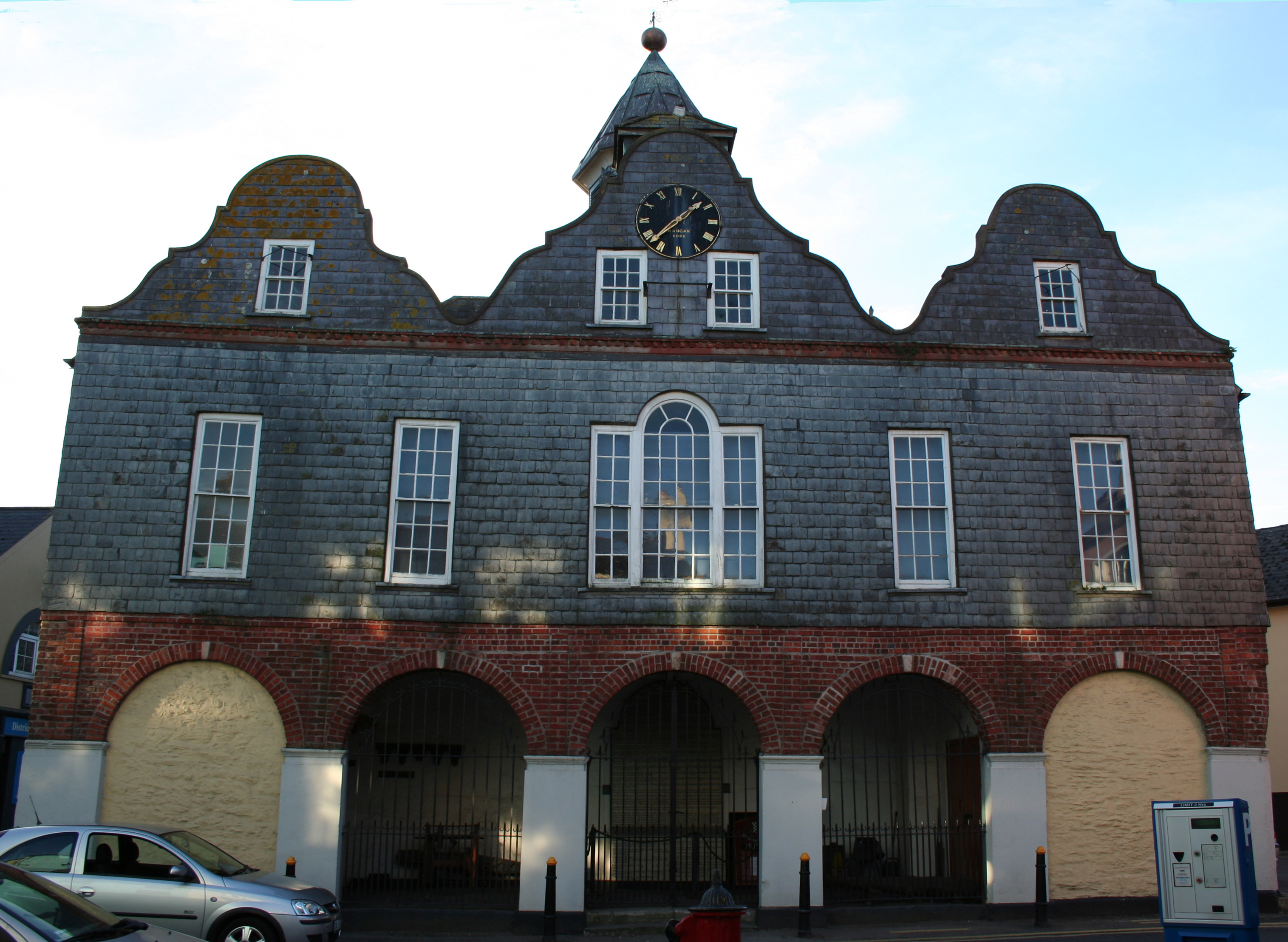 Market House, Kinsale, Republic of Ireland